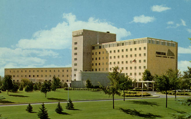 A postcard displaying the North Central Home Office of Prudential Insurance Company of America, sometime during the 1960s, in west Minneapolis.